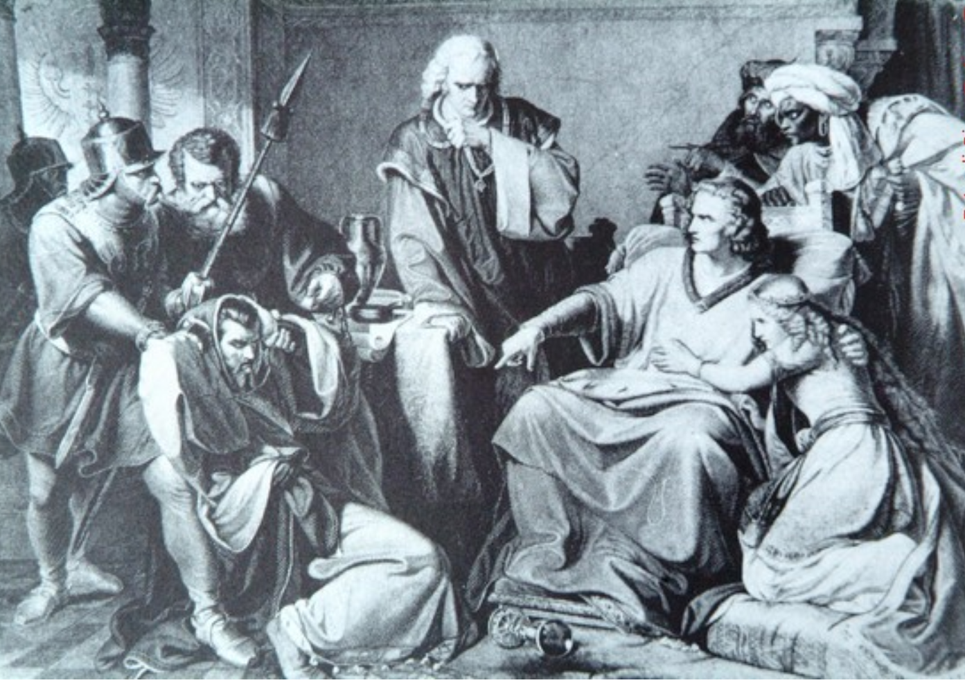 Federico II e il tradimento di Pier delle Vigne suo cancelliere. Dusseldorf, Kunstmuseum Kupferstichkabinett